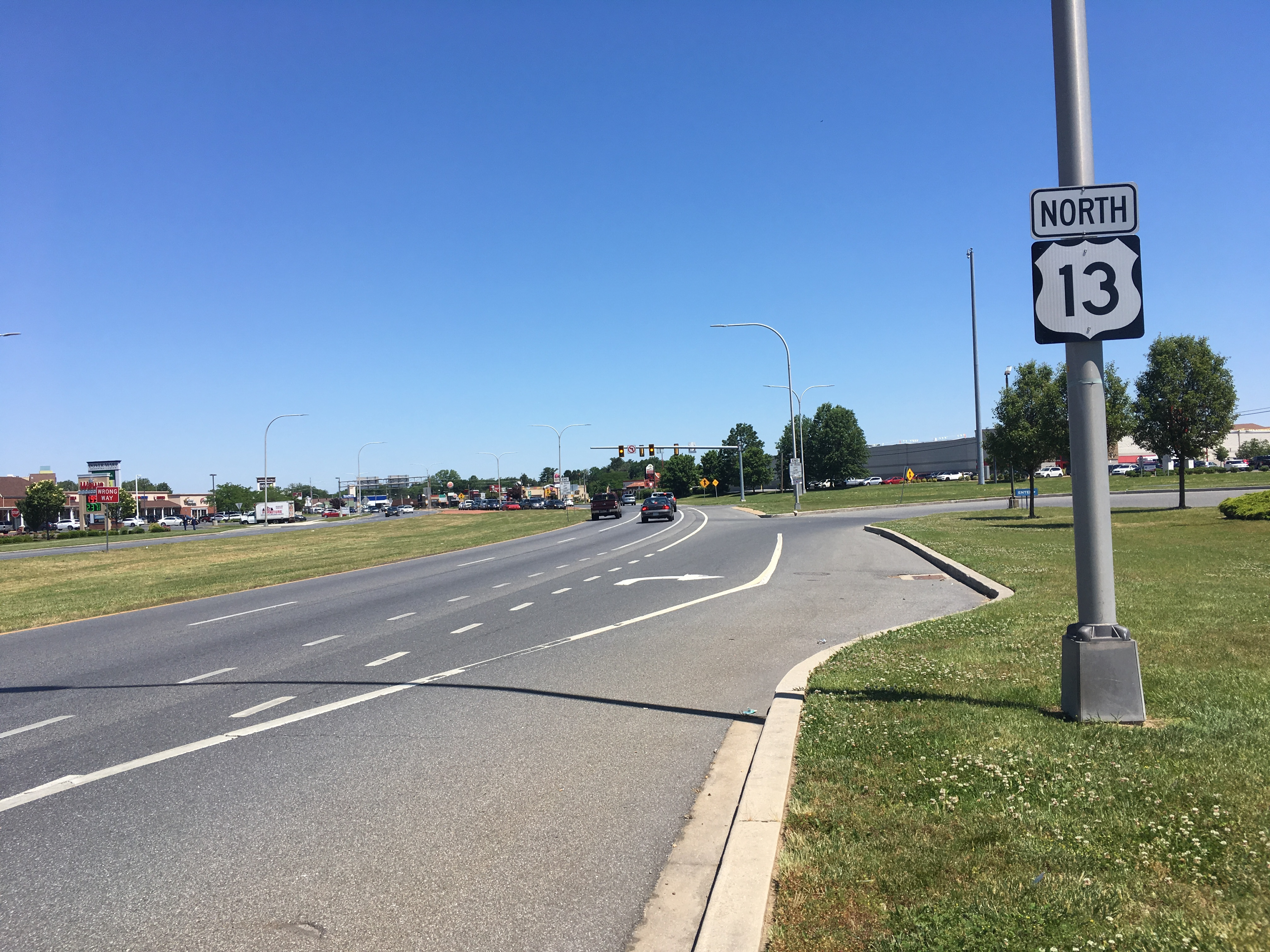 Northbound U.S. Route 13 (Dupont Highway) past the intersection with Martin Luther King Jr. Boulevard in Dover, Delaware